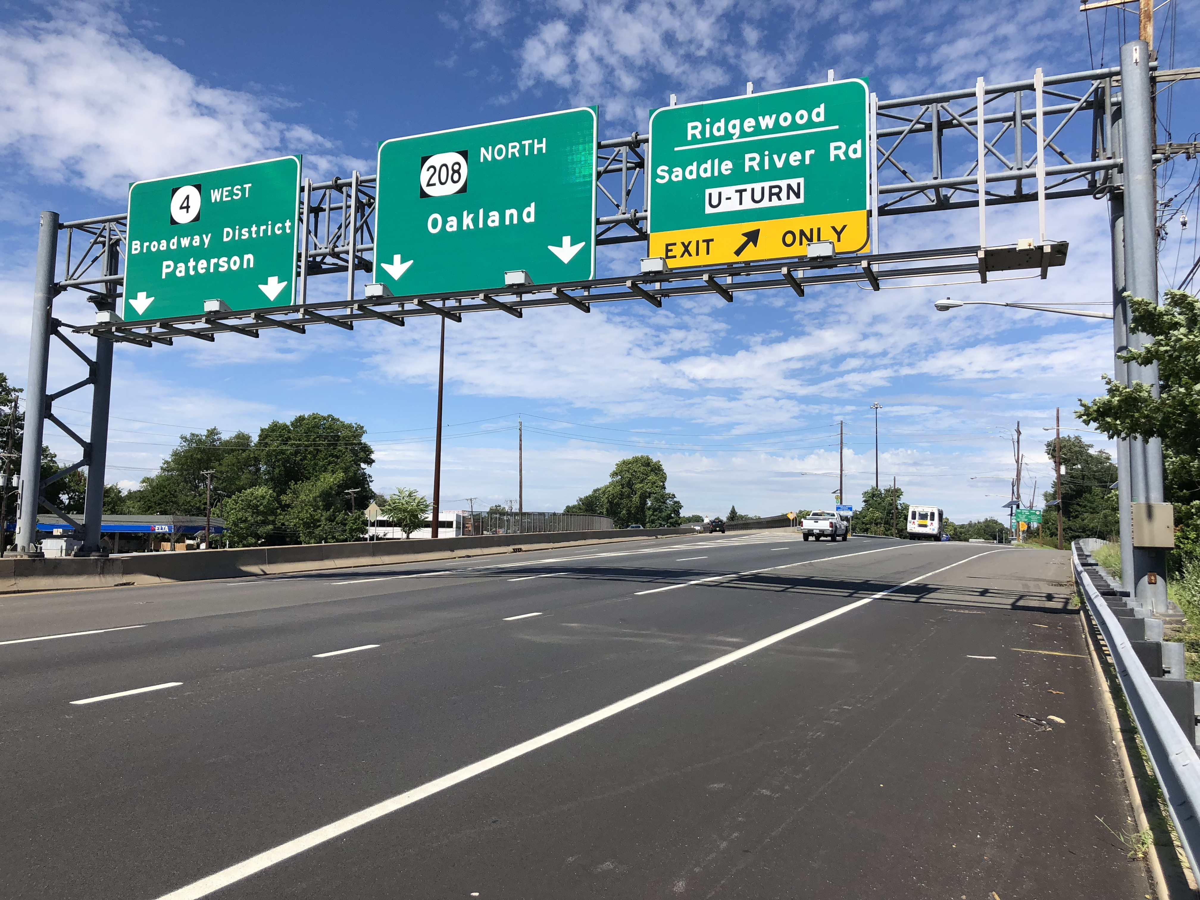 View west along New Jersey State Route 4 at the exits for Ridgewood/Saddle River Road and New Jersey State Route 208 NORTH (Oakland) in Fair Lawn, Bergen County, New Jersey